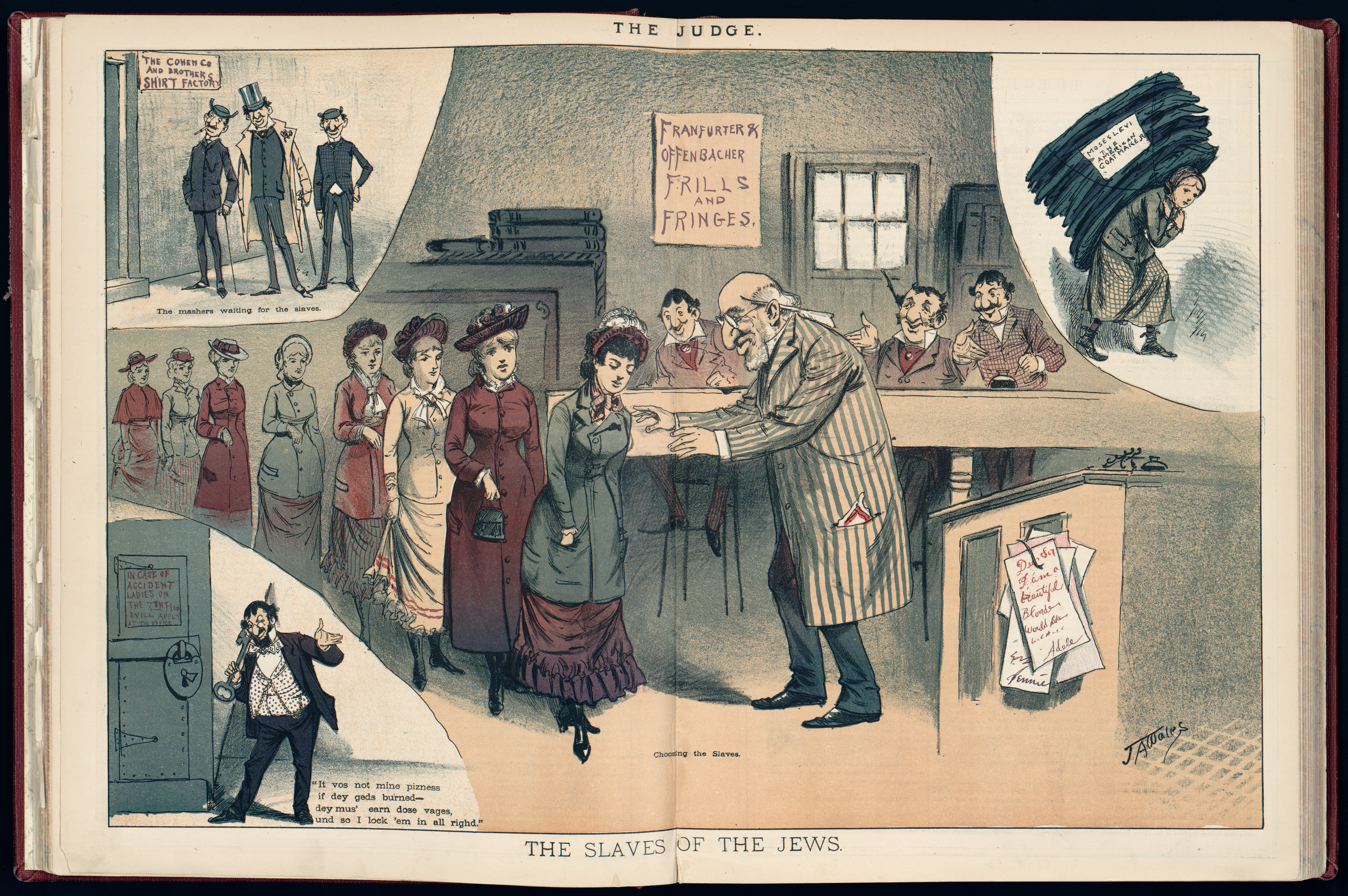 Title: The slaves of the Jews / J.A. Wales. Abstract/medium: 1 print : chromolithograph.